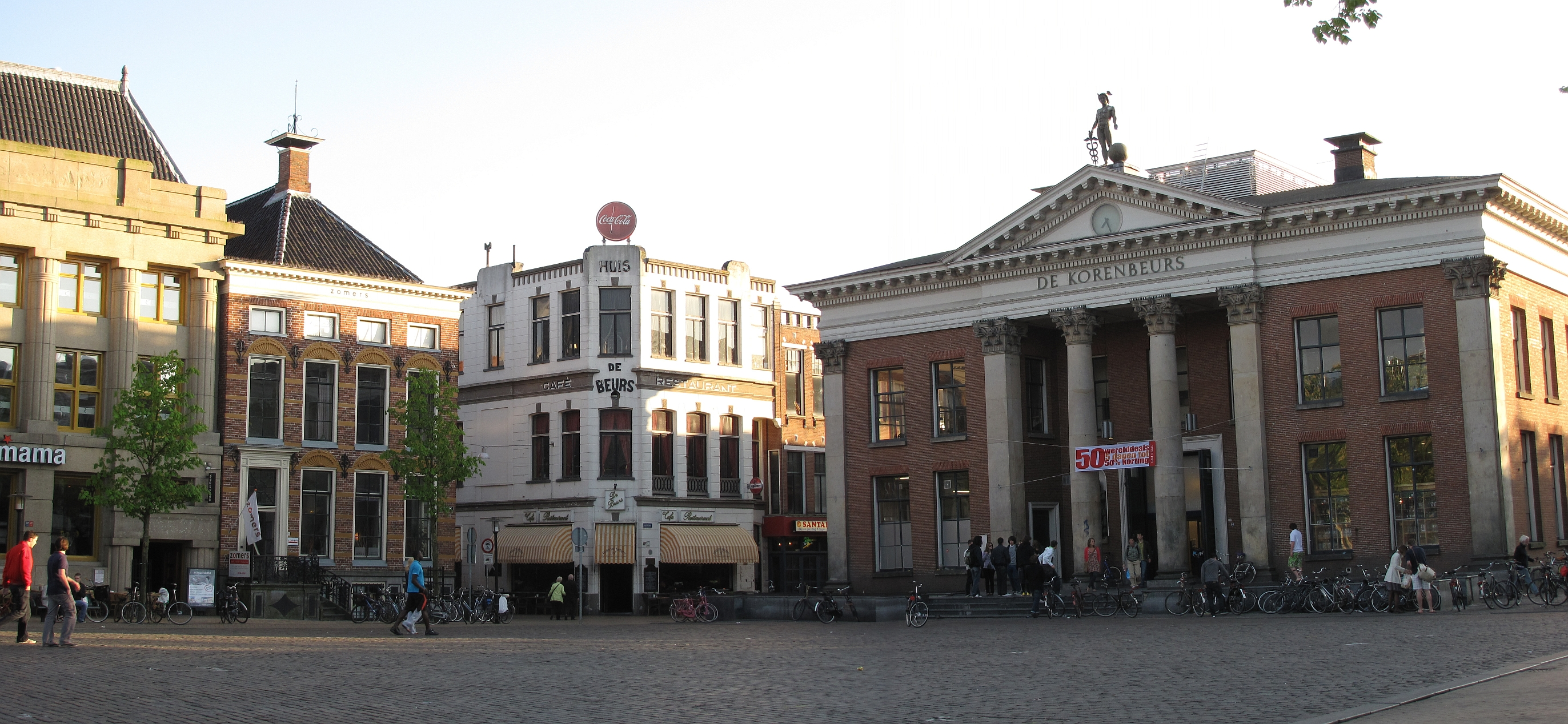 The 'Corn Exchange' (Korenbeurs) seen from the 'Fishmarket', Groningen